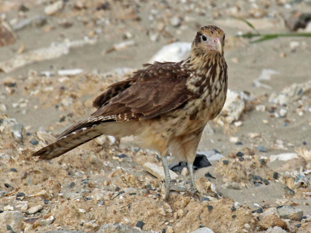 Juvenile Yellow-headed Caracara (Milvago chimachima) - Isla Iguana, Panama